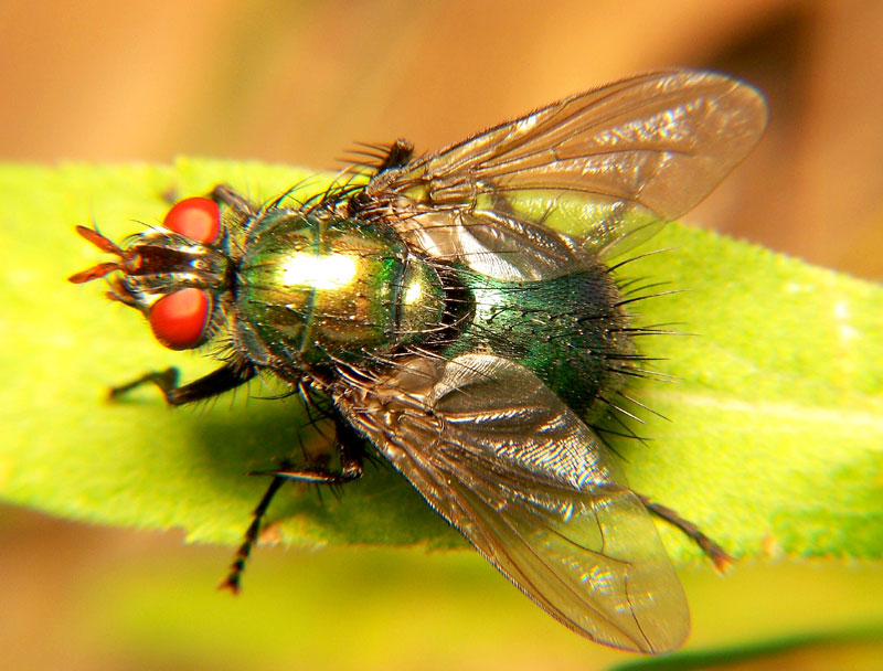 Tachinid Fly - Gymnocheta sp. Order Diptera / Suborder Brachycera / Infraorder Muscomorpha / Family Tachinidae / Subfamily Tachininae / Tribe Ernestiini Live adult female fly photographed at Winfield Mounds Forest Preserve, DuPage County, Illinois, USA. Identification by Dr. James E. O'Hara, Ph.D. North American Dipterist Society.